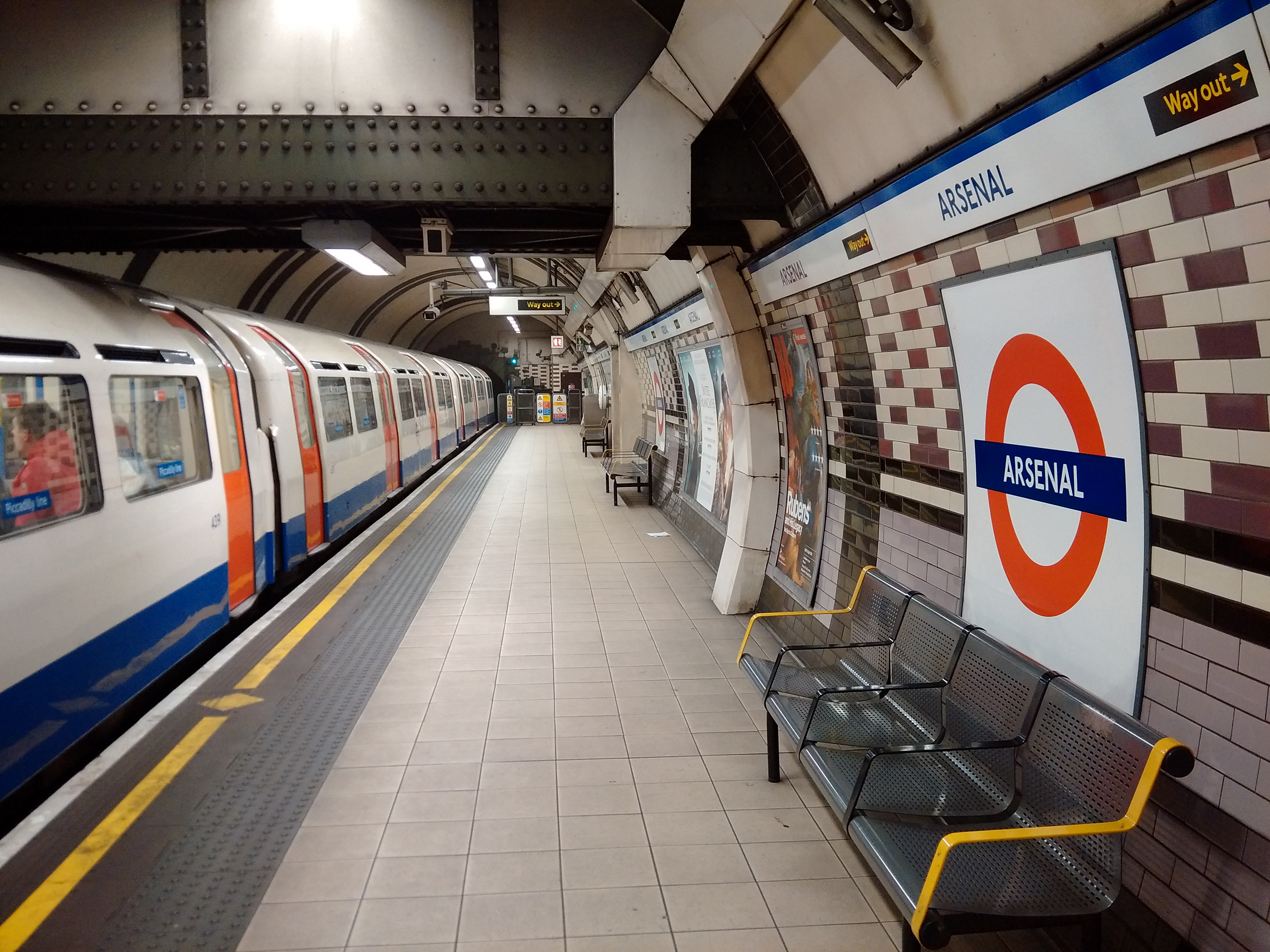 Piccadilly line train at Arsenal (platform view, 2015).